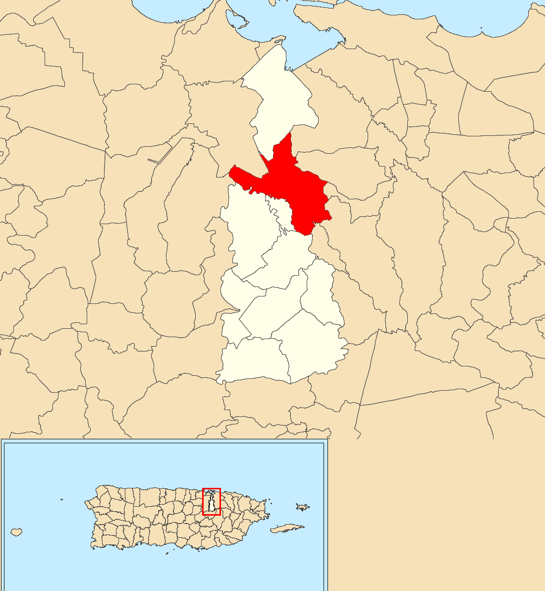 Frailes, Guaynabo, Puerto Rico locator map